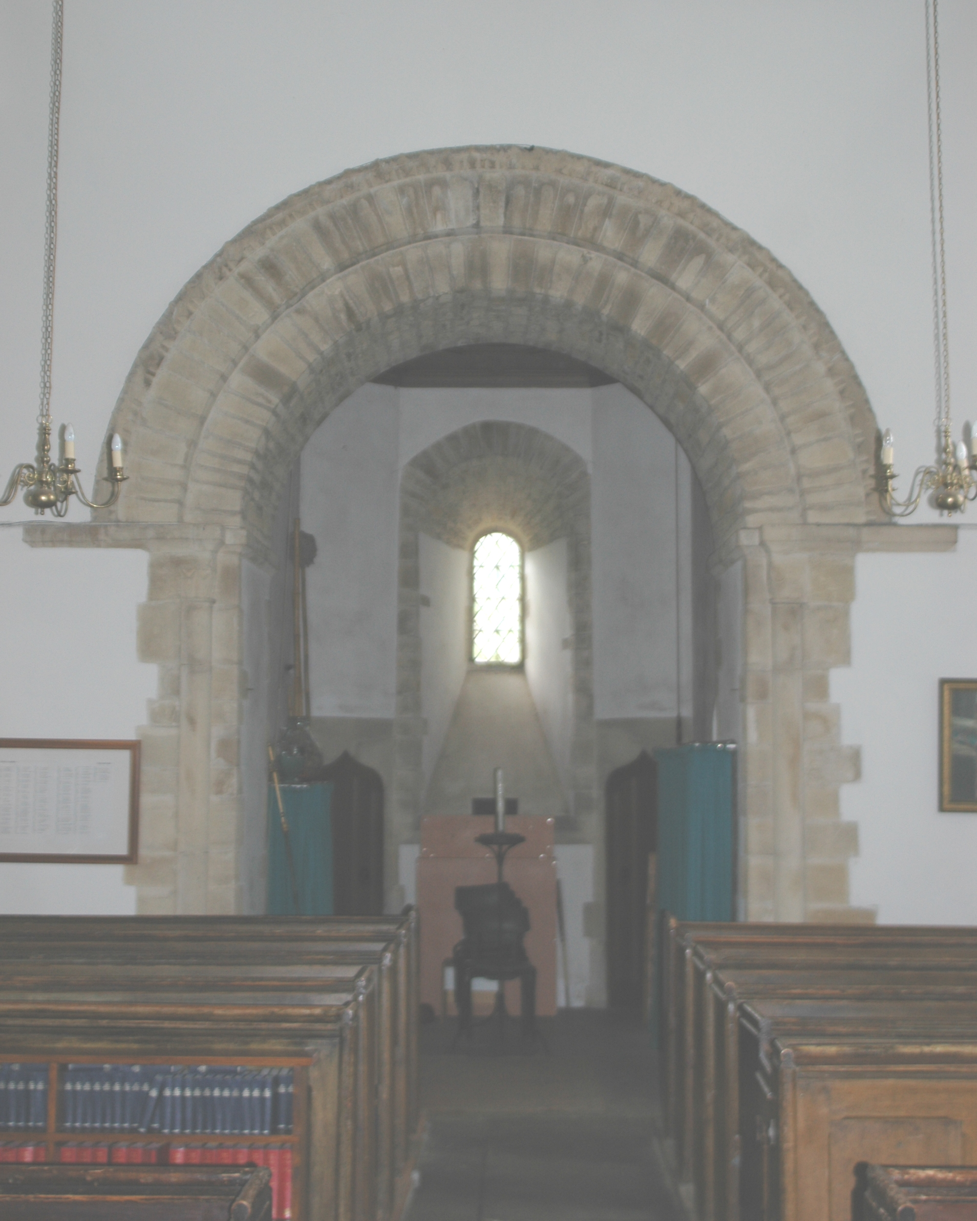 St Mary the Virgin parish church, Souldern, Oxfordshire: Norman tower arch built in the 12th century and rebuilt by G.F. Bodley in 1906.